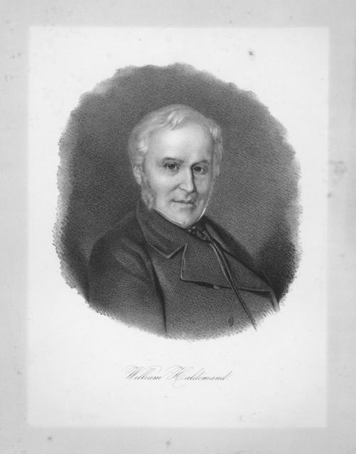 Lithograph of William Haldimand (1784–1862), English banker and philanthropist.